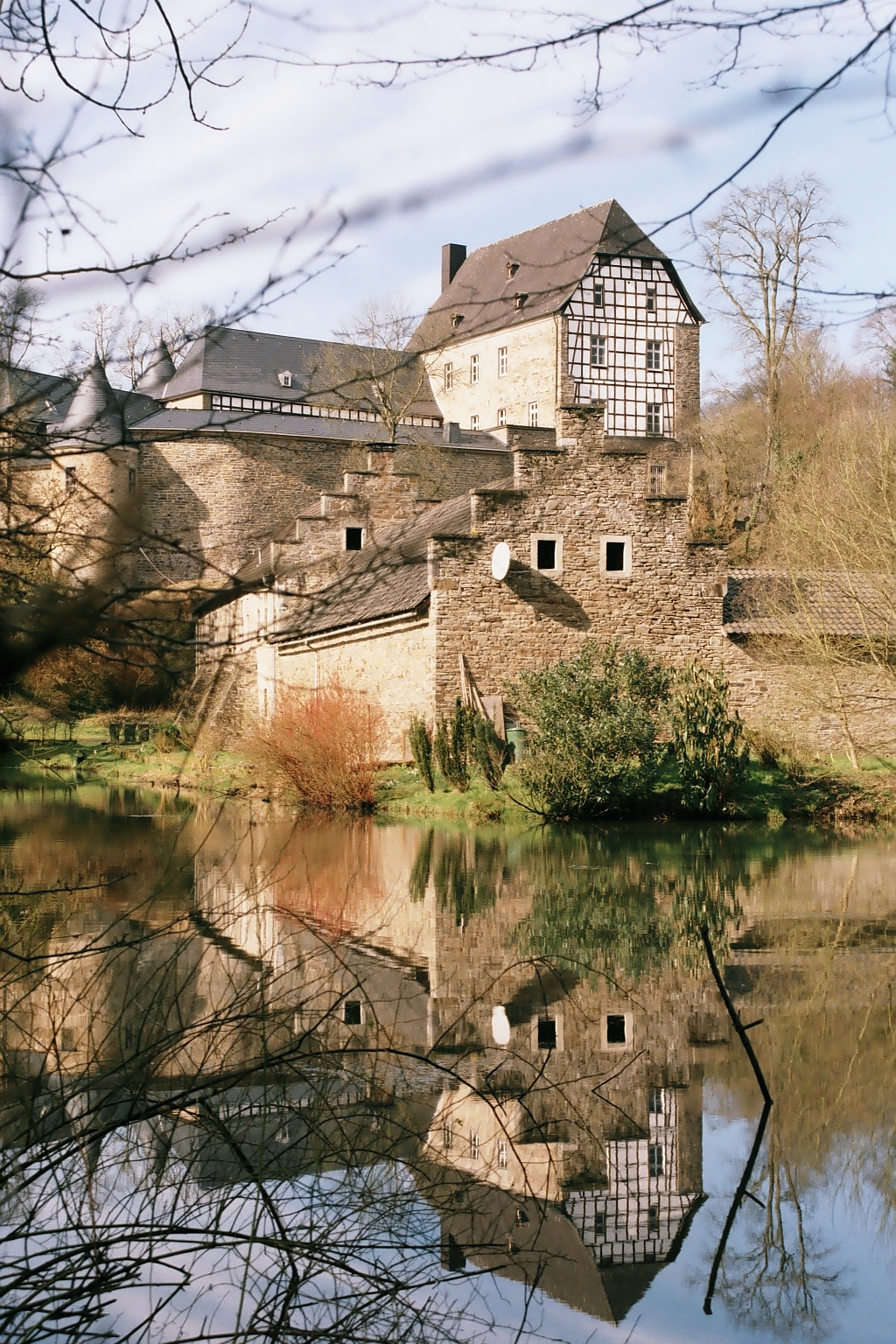 Herrnstein Castle, eastern aspect